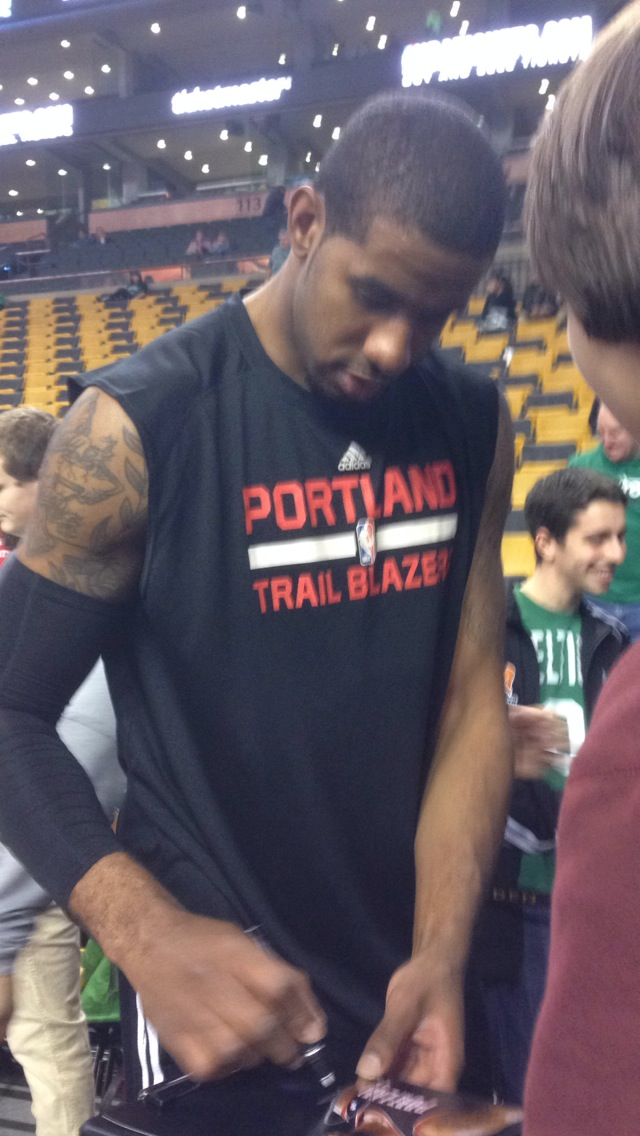 LaMarcus Aldridge signing autographs at TD Bank North Garden on November 23 2014.